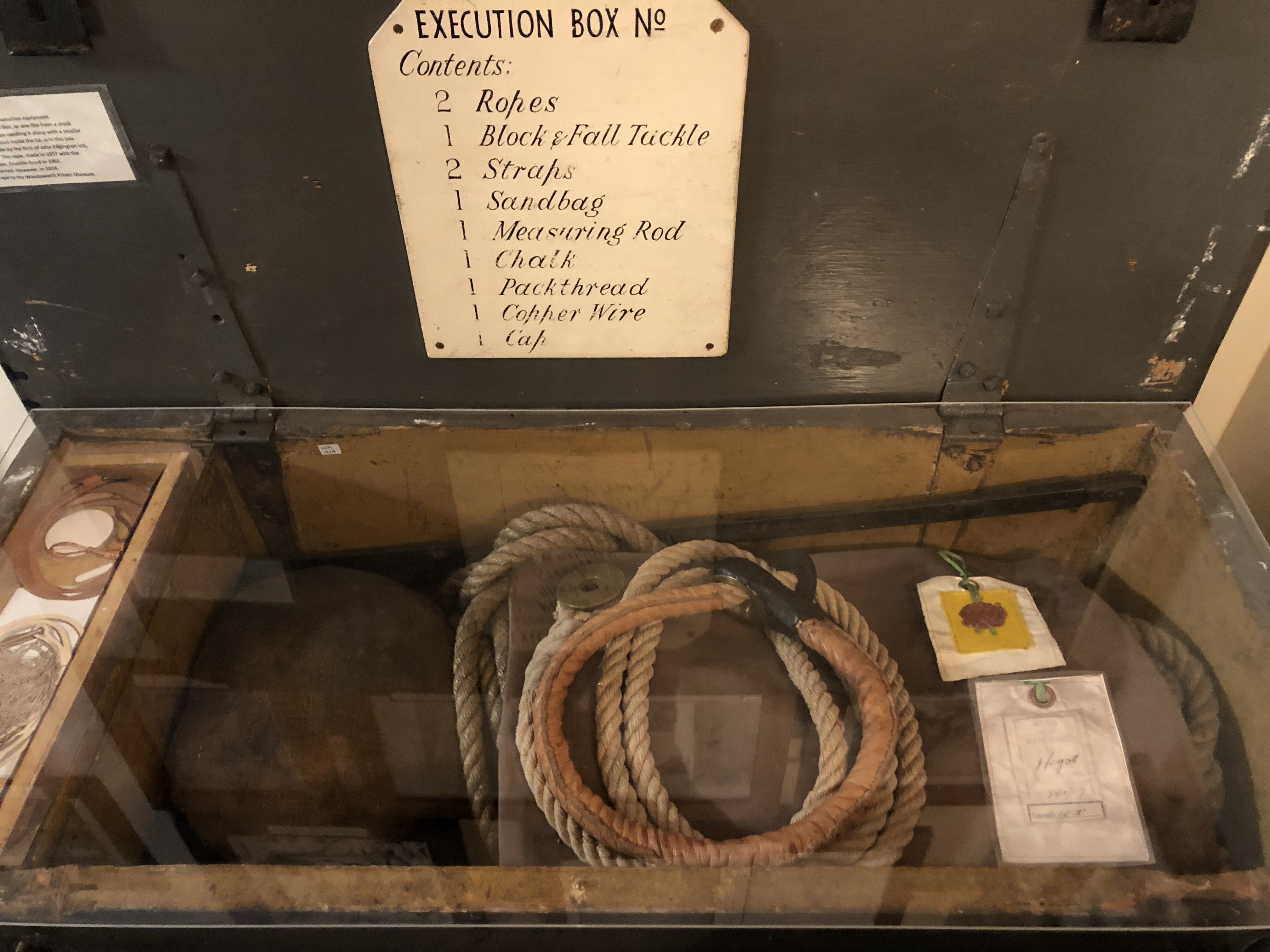 Execution Box, No 8, containing all the equipment needed for an executioner. These boxes were held at Wandsworth and were sent out to other prisons for each execution. Image taken by SchroCat at the Wandsworth Prison Museum, who kindly allow photographs of their exhibits.